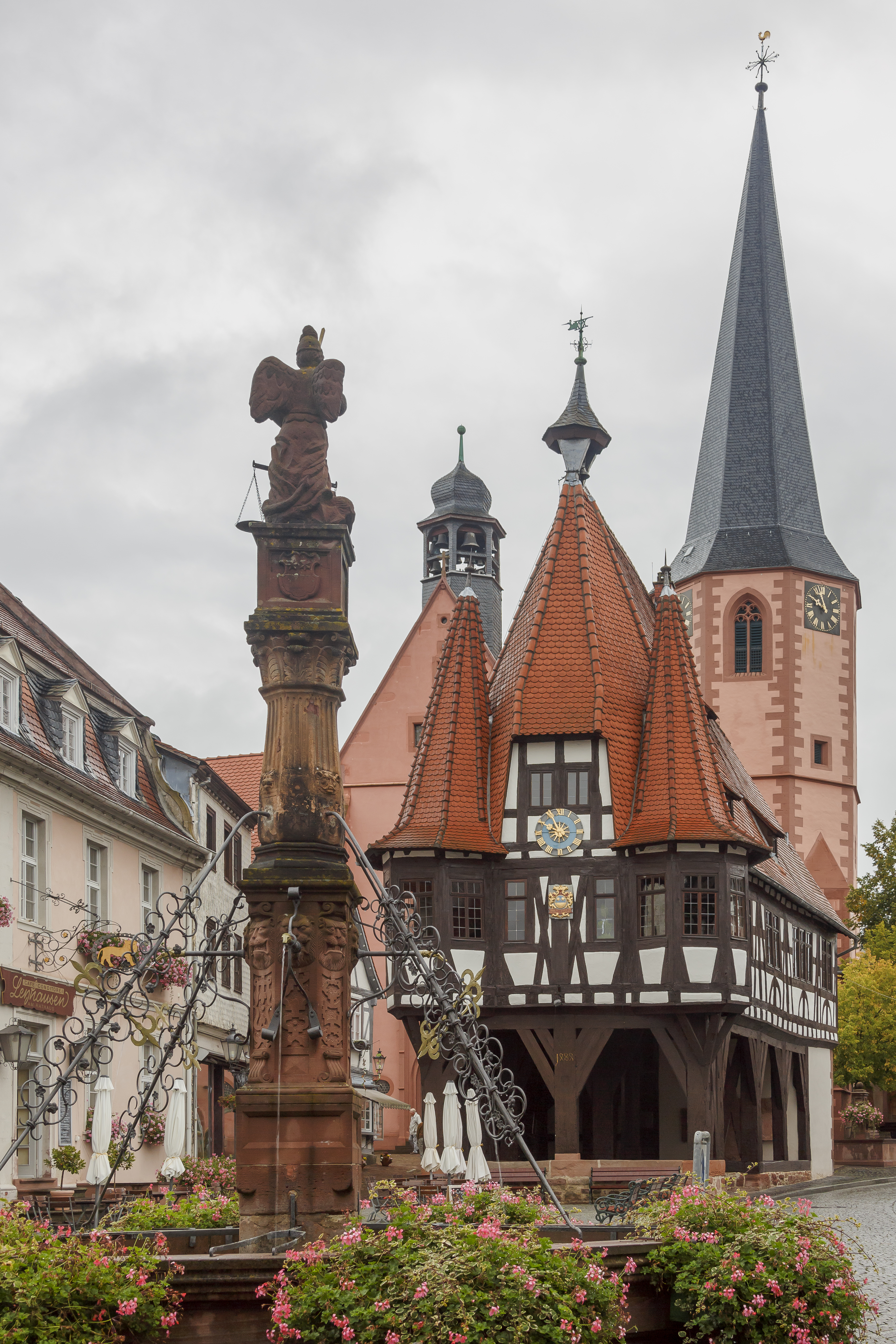 Michelstadt, Germany: Old towns hall, one of the timber framed houses in Michelstadt and the market square fountain